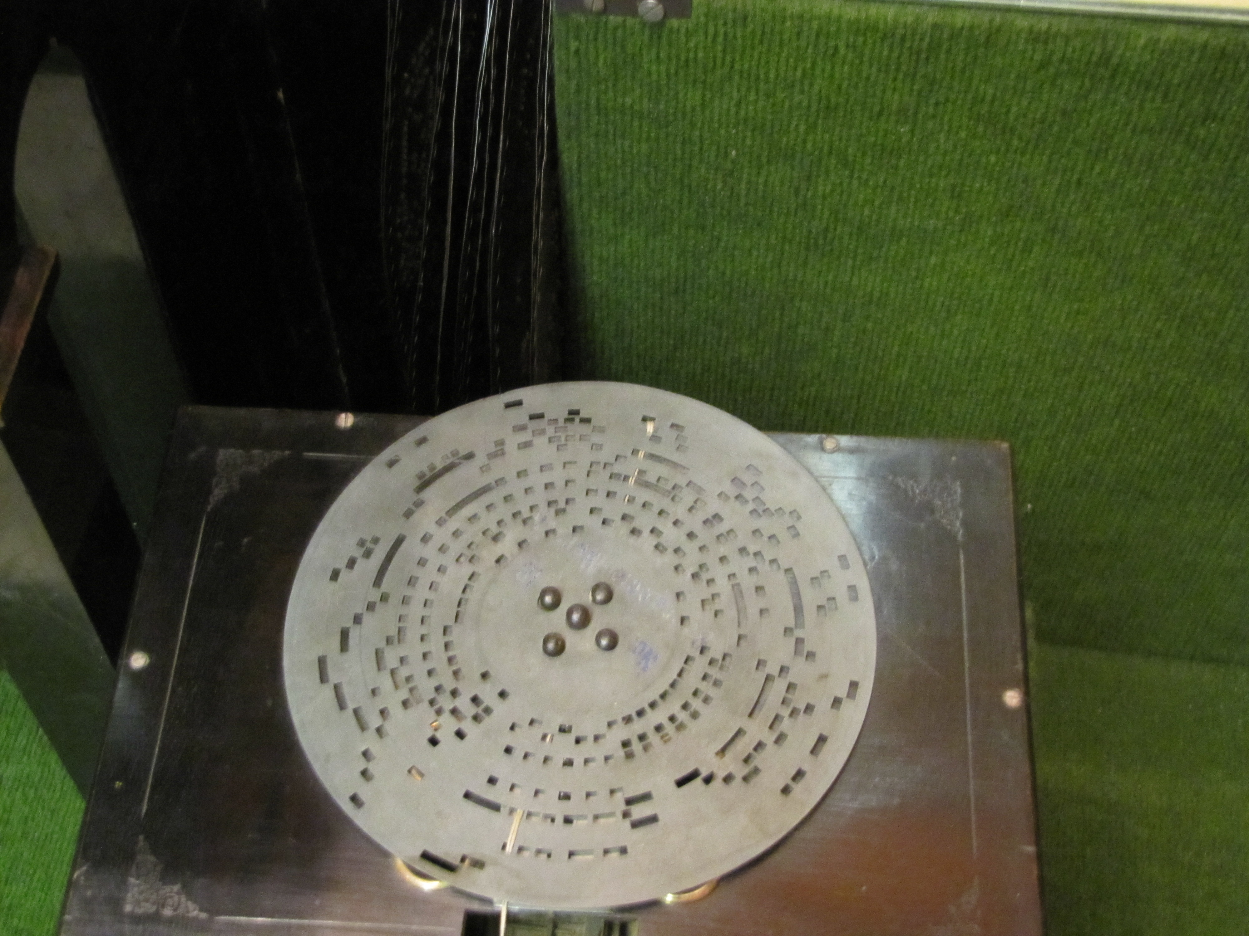 Photo taken in Warsaw Museum of Technology